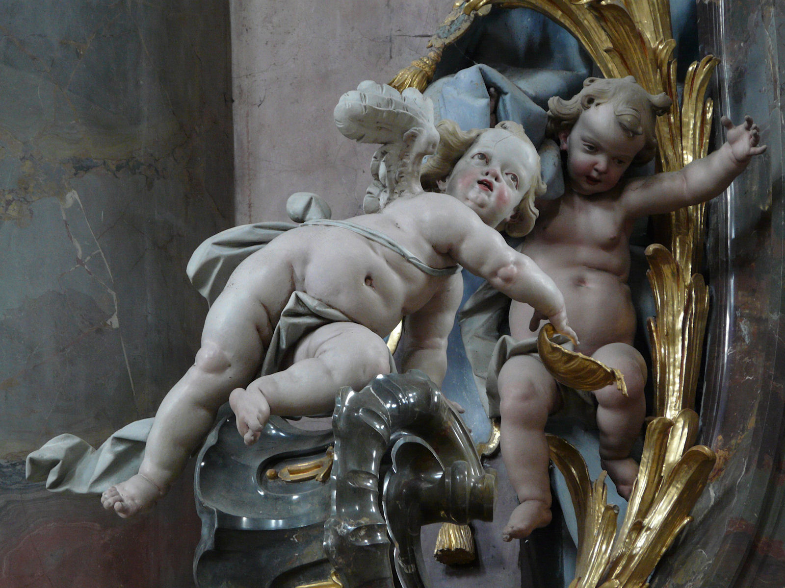 Decorations on the Altar of Saint John the Baptist at Ottobeuren Abbey, Ottobeuren, Germany